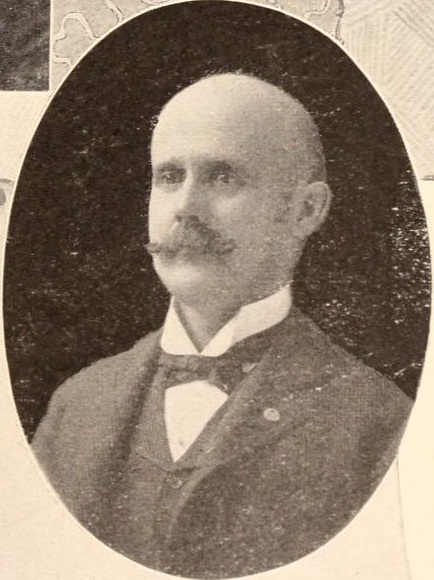 Portrait of New York assemblyman Benn Conger